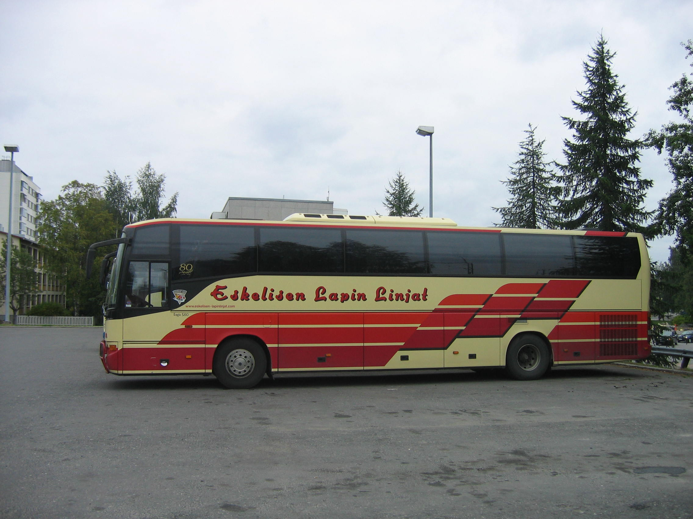 A bus owned by the Finnish company "Eskelisen Lapin Linjat", photographed in Oulu.